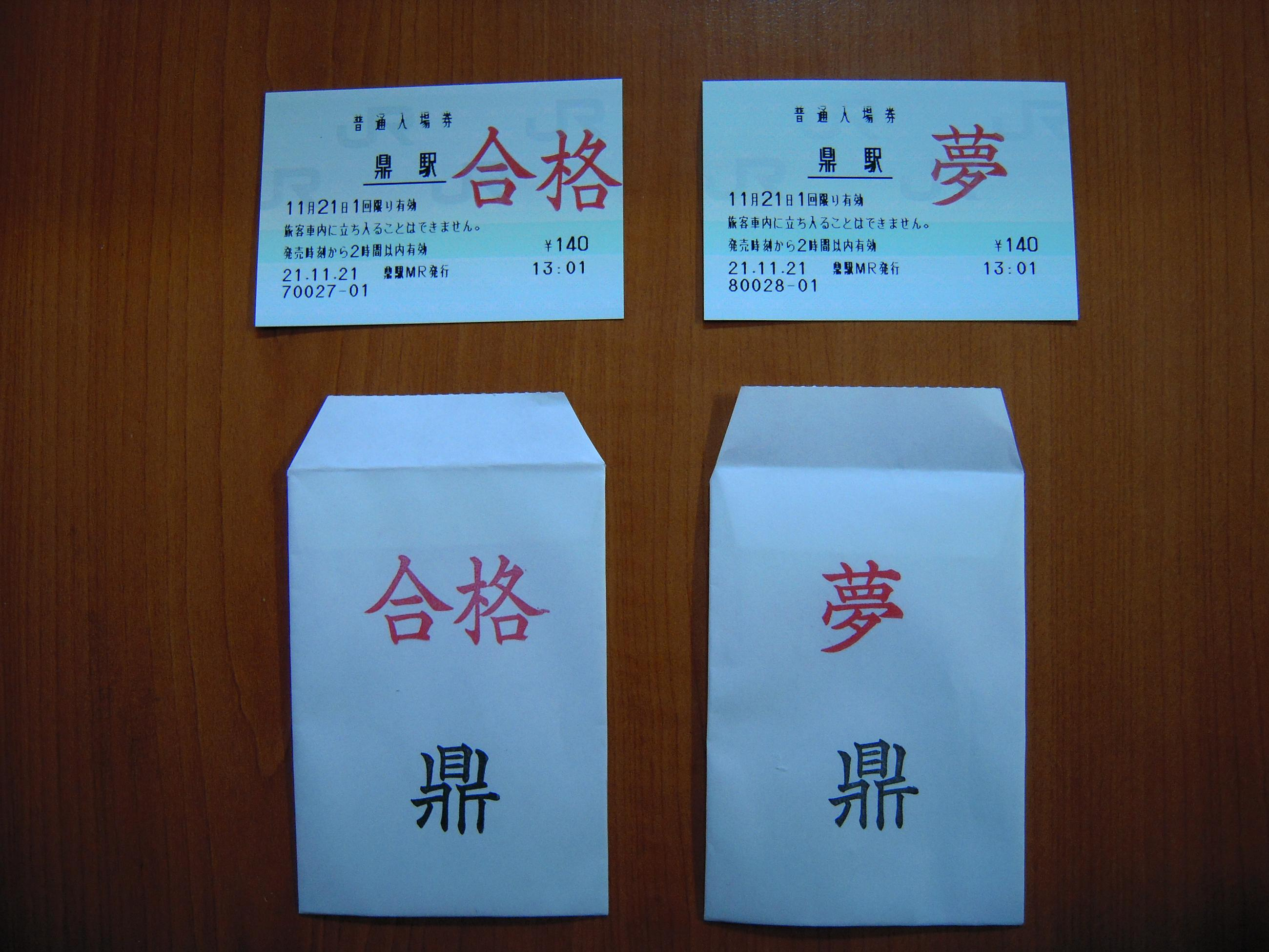 Commemorative platform tickets of JR Kanae Station